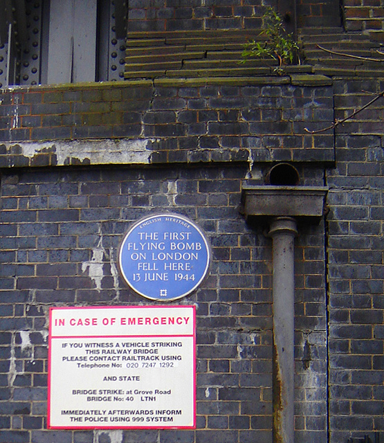 Close-up of V-1 plaque, Grove Road railway bridge, Mile End, Tower Hamlets, London. 6 January 2006. Photographer: Fin Fahey